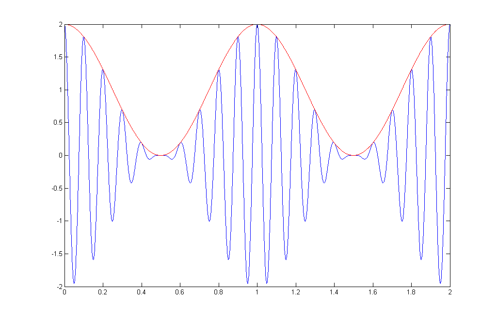 Amplitude modulated signal, modulated using a sine function and modulation depth of 100%. 100%-os modulációs mélységű AM jel.